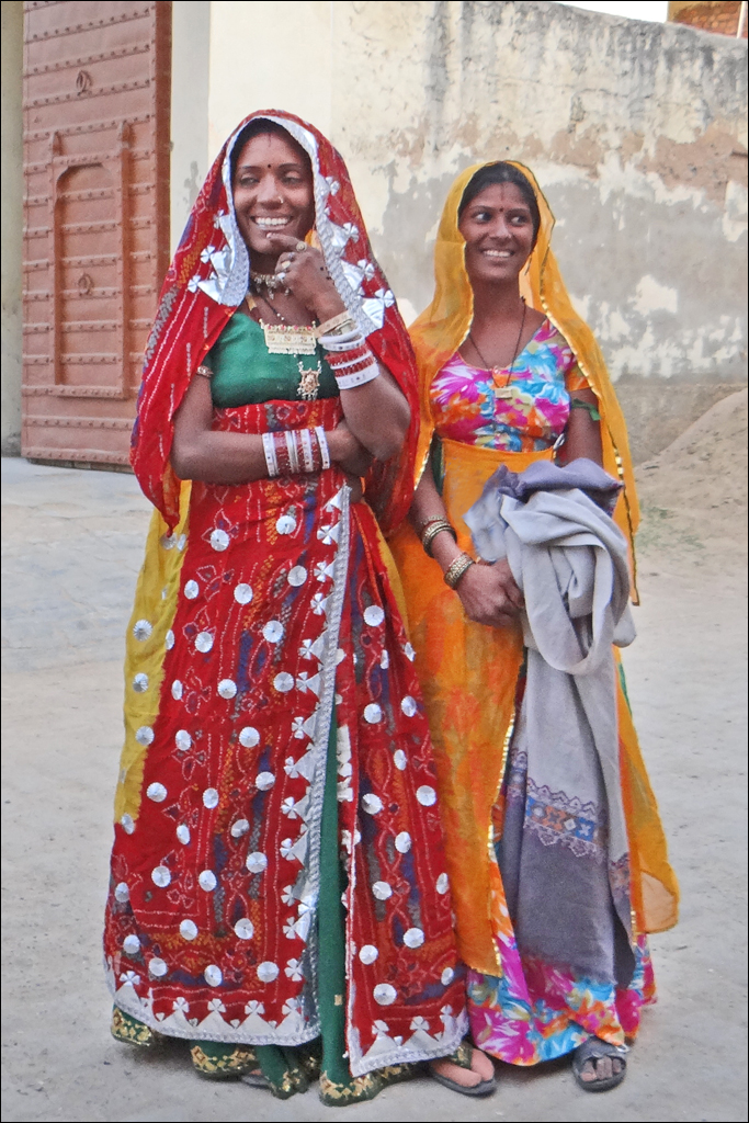 Femmes rajpoutes (Mandawa, Rajasthan)